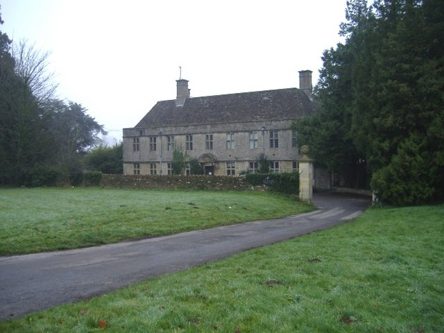 Great House, Kington Langley This impressive country house, on the edge of Kington Langley is now a 'Leonard Cheshire' home.